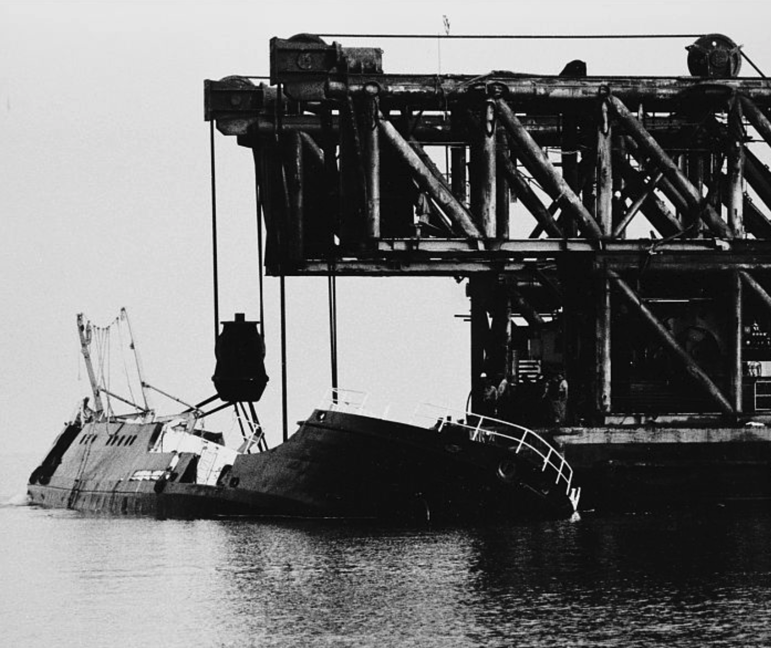 USCGC Mesquite being lowered to the bottom of Lake Superior on July 13, 1990